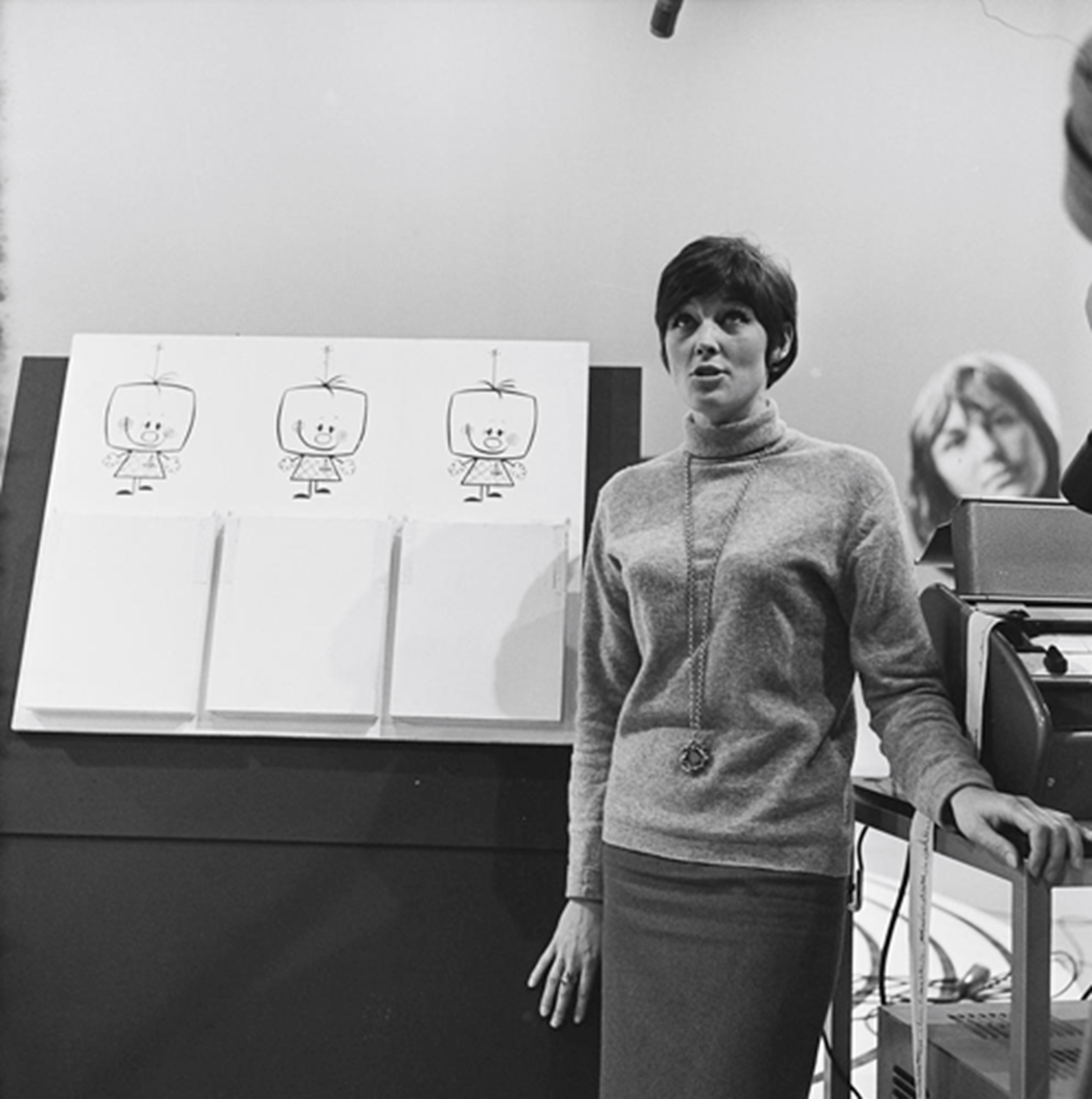 Dutch TV presenter Astrid Engels (Programme Fanclub, Dutch TV, 13 November 1965)